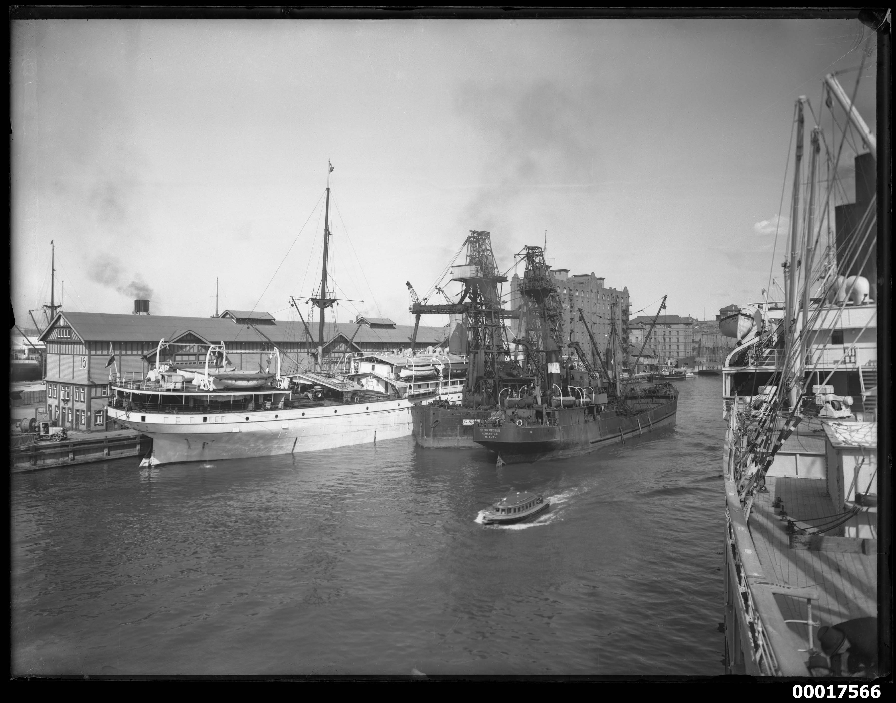 The ANMM undertakes research and accepts public comments that enhance the information we hold about images in our collection. This record has been updated accordingly. Photographer: Unknown Object no. 00017566